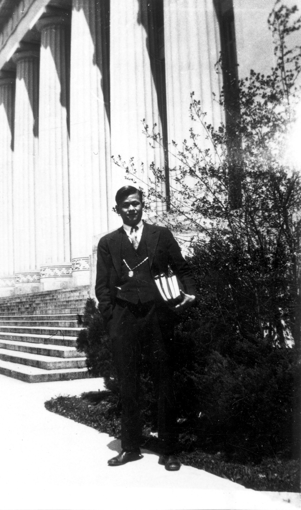 No known copyright restrictions. Please credit UBC Library as the image source. For more information, see Creator: Unknown Date Created: 1919 Source: Original Format: University of British Columbia Library. Chung Collection. Permanent URL